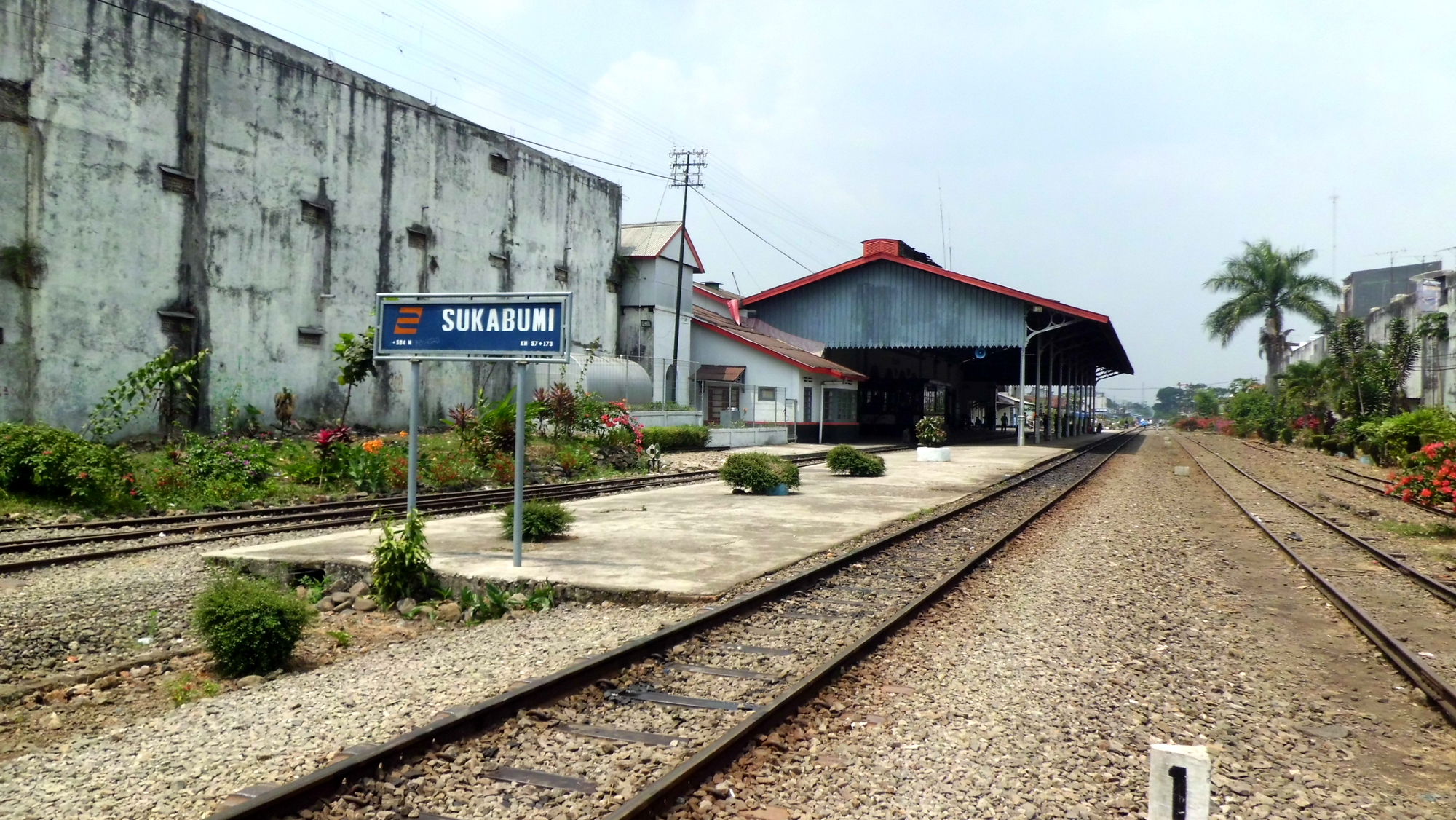 Sukabumi Train Station in Sukabumi, West Java, IndonesiaBahasa Indonesia: Stasiun Kereta Sukabumi di Kota Sukabumi, Jawa Barat, Indonesia